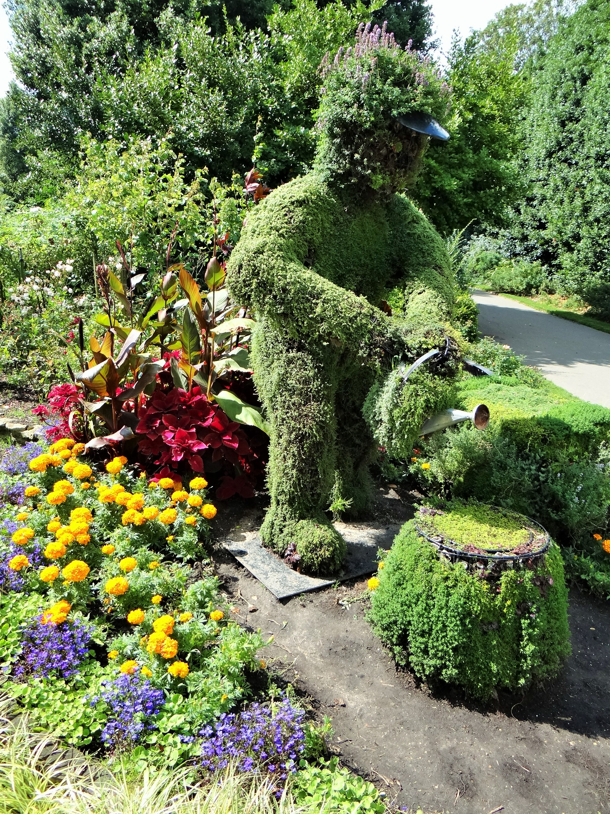 Gardening in The Regent's Park, London